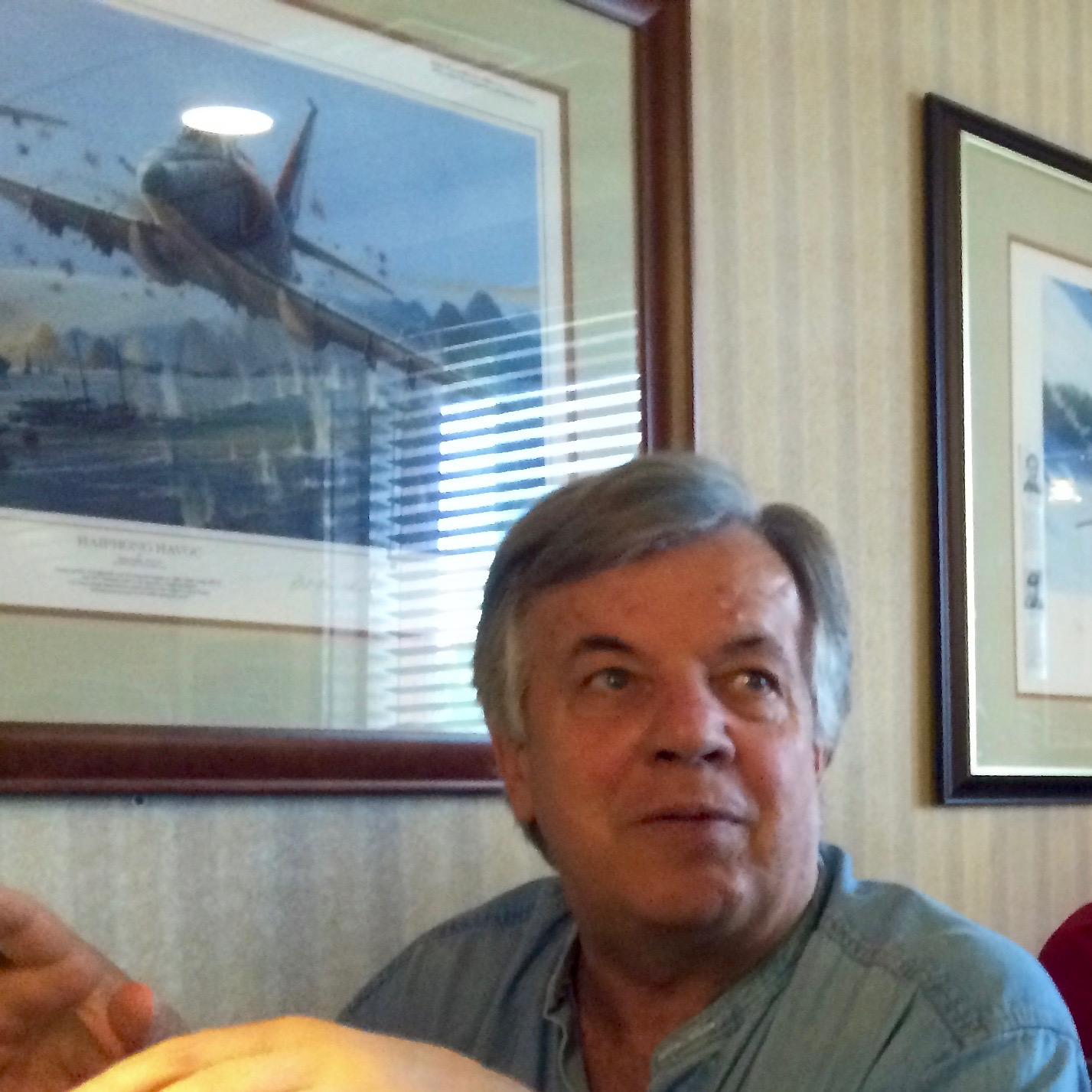 An-124 and An-225 pilot Alexander Poddoubnyi at the Old Bold Pilots Association breakfast in Oceanside, California, on December 18, 2013